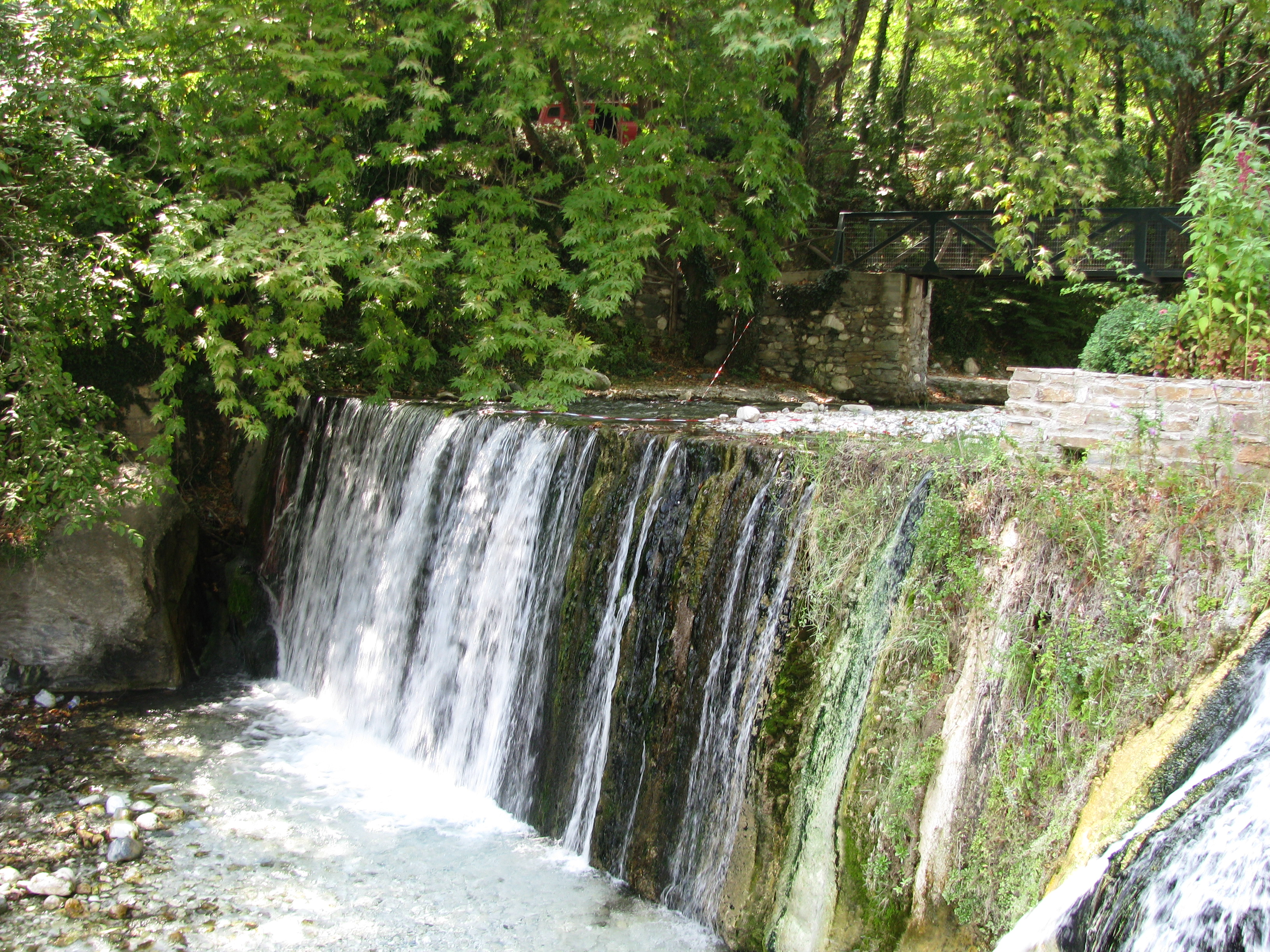 Village of Lutraki, Pella, Macedonia, Greece.